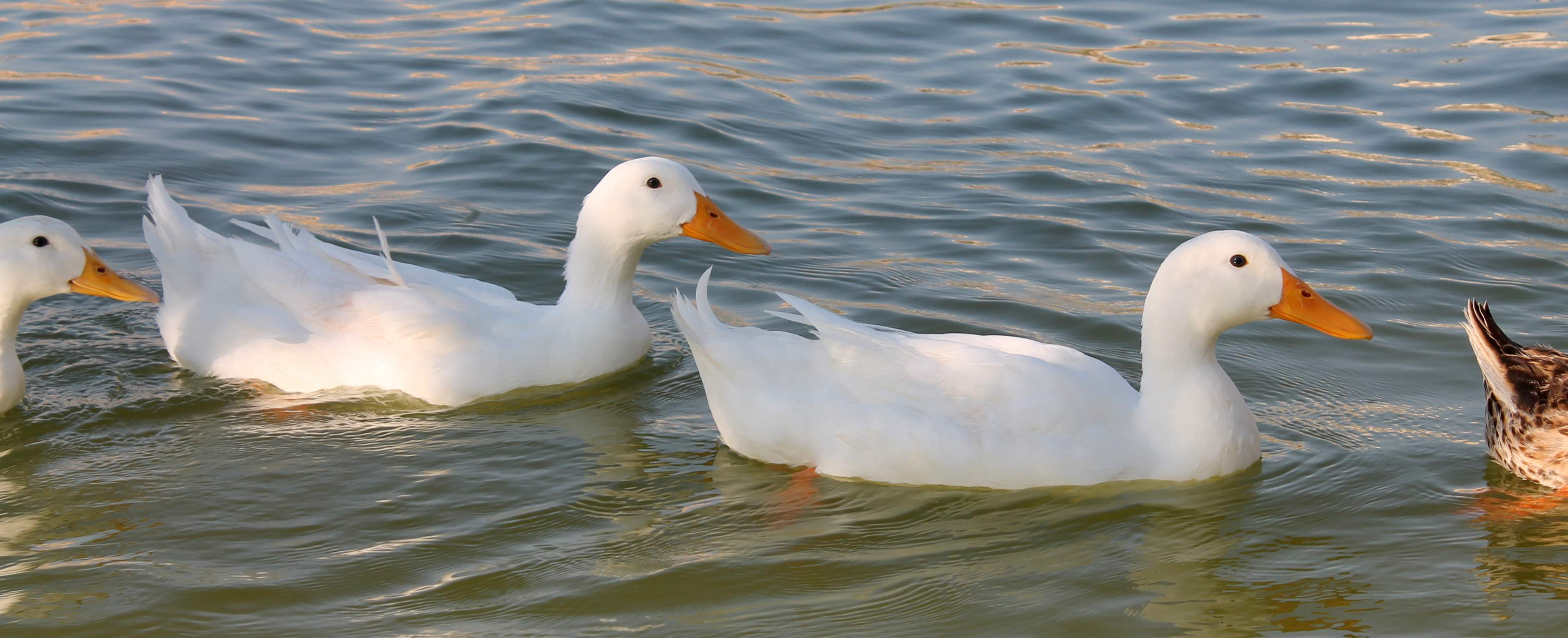 ברווזים בפארק ענבה